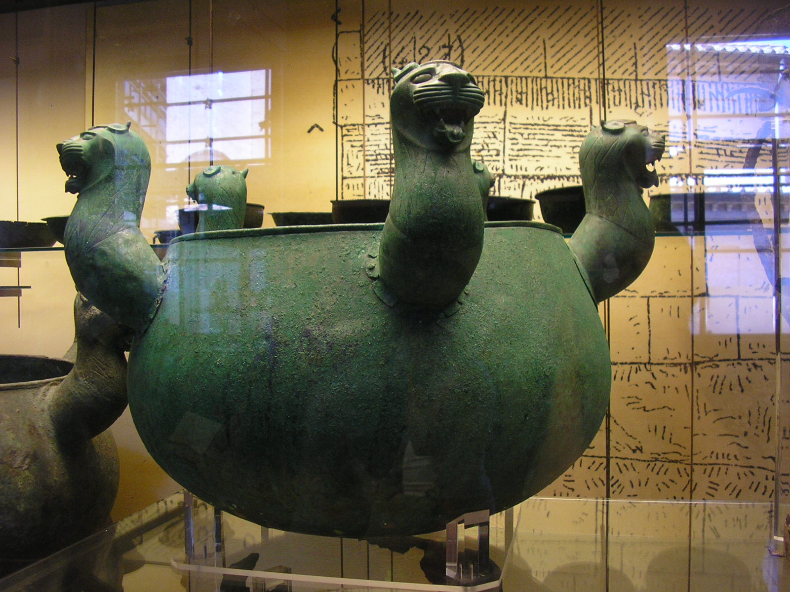 Etruskisches Museum (Vatican)